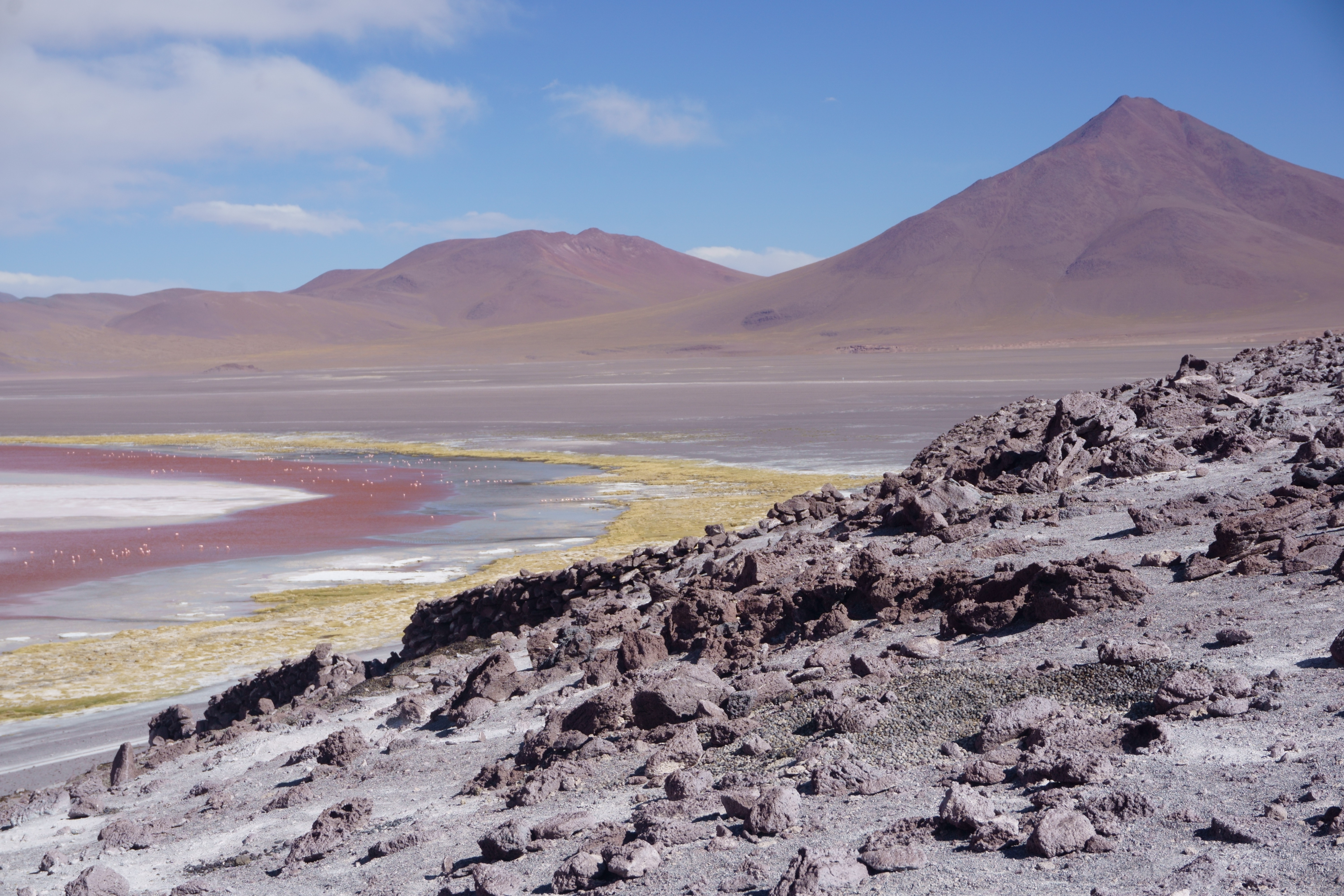 Laguna Colorada.